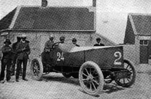 Photograph of Louis Rigolly and his car - the first to exceed 100 miles per hour in 1904